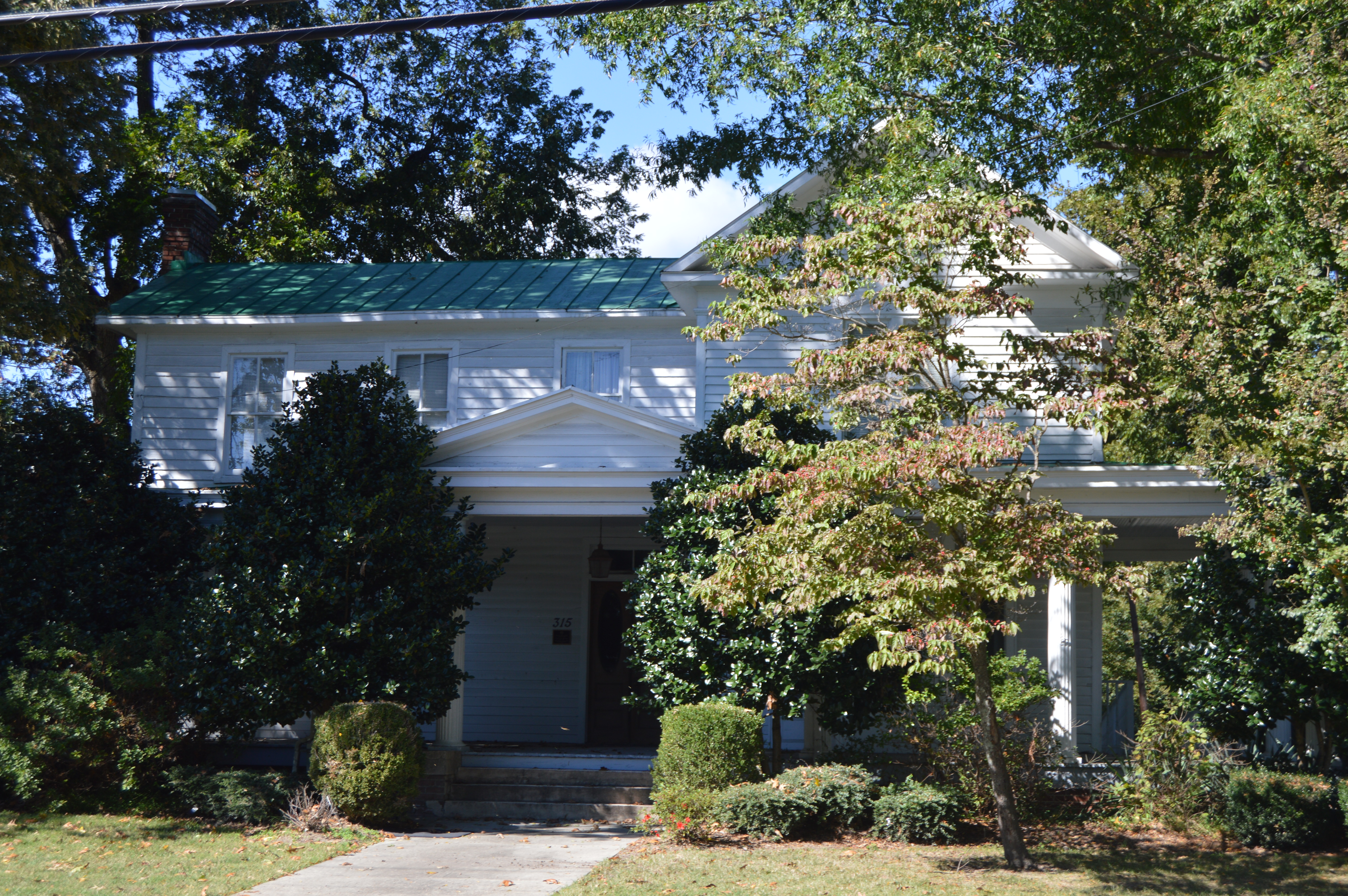 Front of the Roxboro Male Academy and Methodist Parsonage, located at 315 N. Main Street in Roxboro, North Carolina, United States. Built in 1854, it is listed on the National Register of Historic Places.